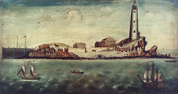 Continental frigate 'Alliance' passing Boston lighthouse on its return from France in 1780, painting by Captain Matthew Parke USMC, (1746-1813). A contemporary painting by Parke, who served on board Alfred and Ranger with John Paul Jones; and the Alliance with John Barry. Painting presented to Naval Historical Foundation by Captain Parke’s great granddaughter Miss Anne H. Parke, Feb 1936. NHHC Photograph Collection, NH 1336.